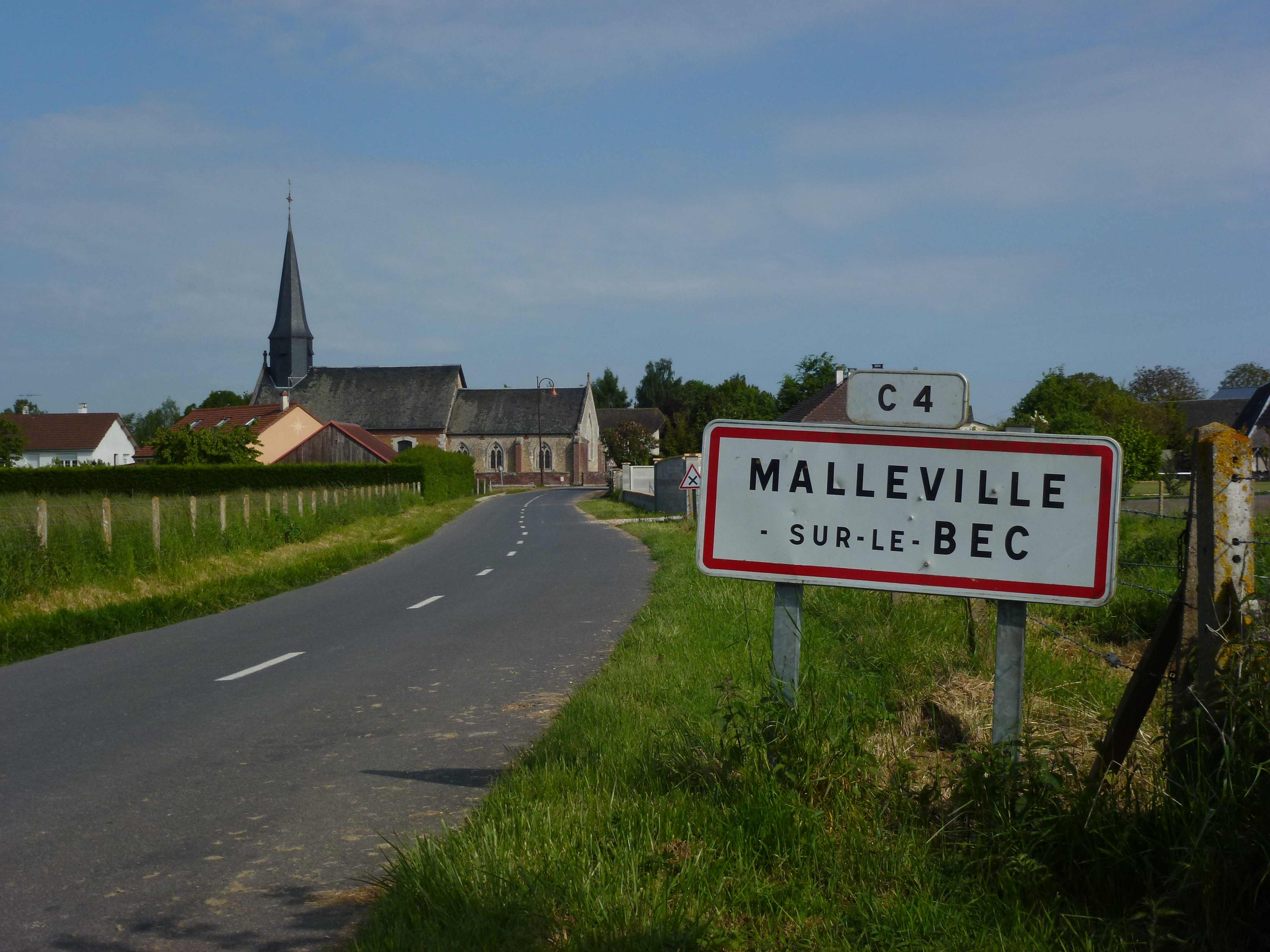 Malleville-sur-le-Bec (Eure, Fr) city limit sign